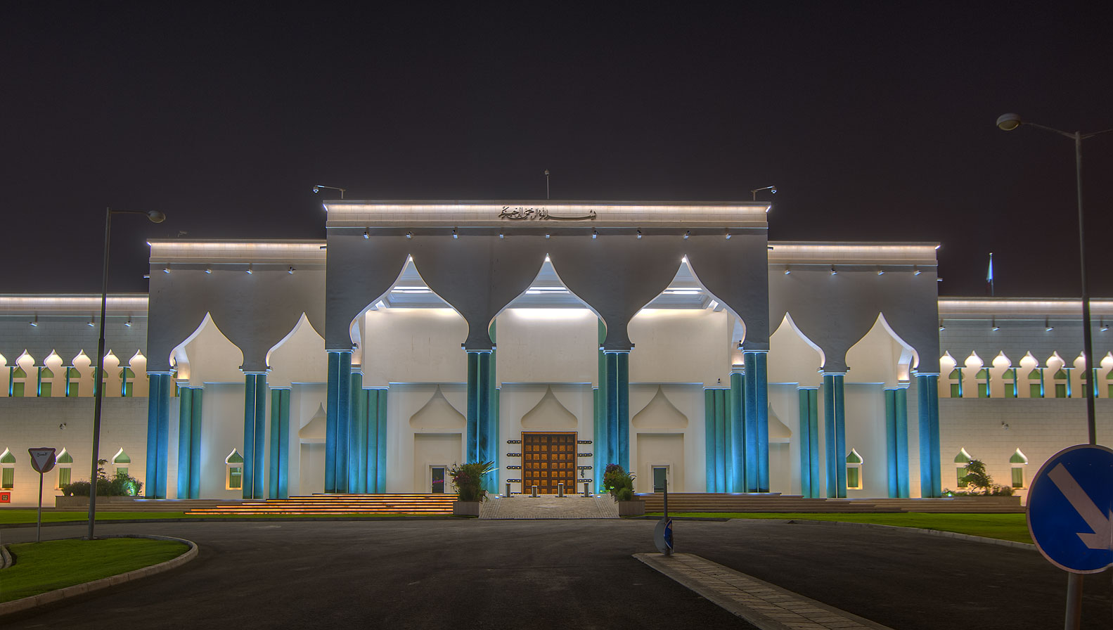 Entrance of Amiri Diwan (Presidential Office) of Qatar.